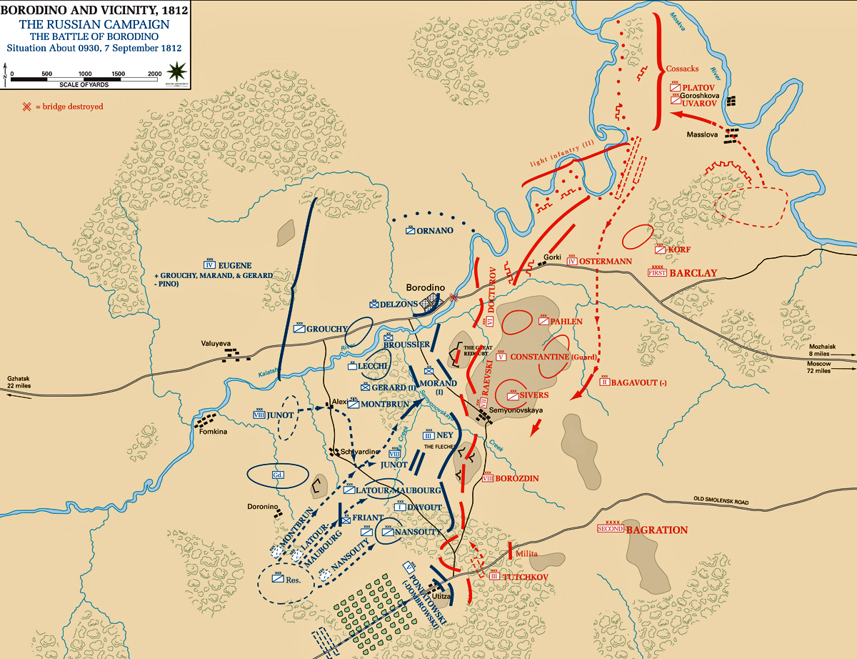 Portrayal of troop positions on the 7th September 1812 9:30